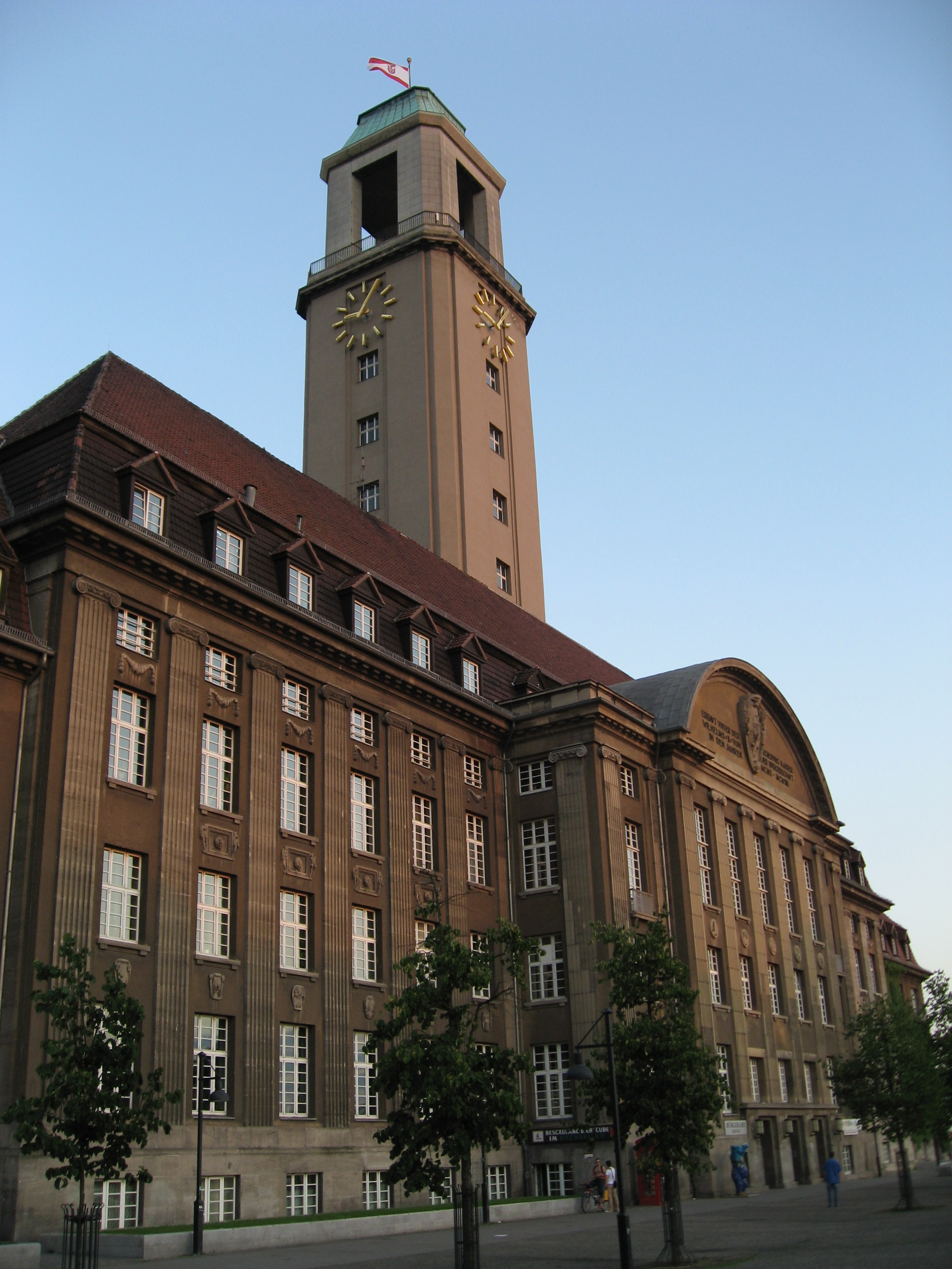 The Rathaus (Town Hall) in Berlin-Spandau, Germany.